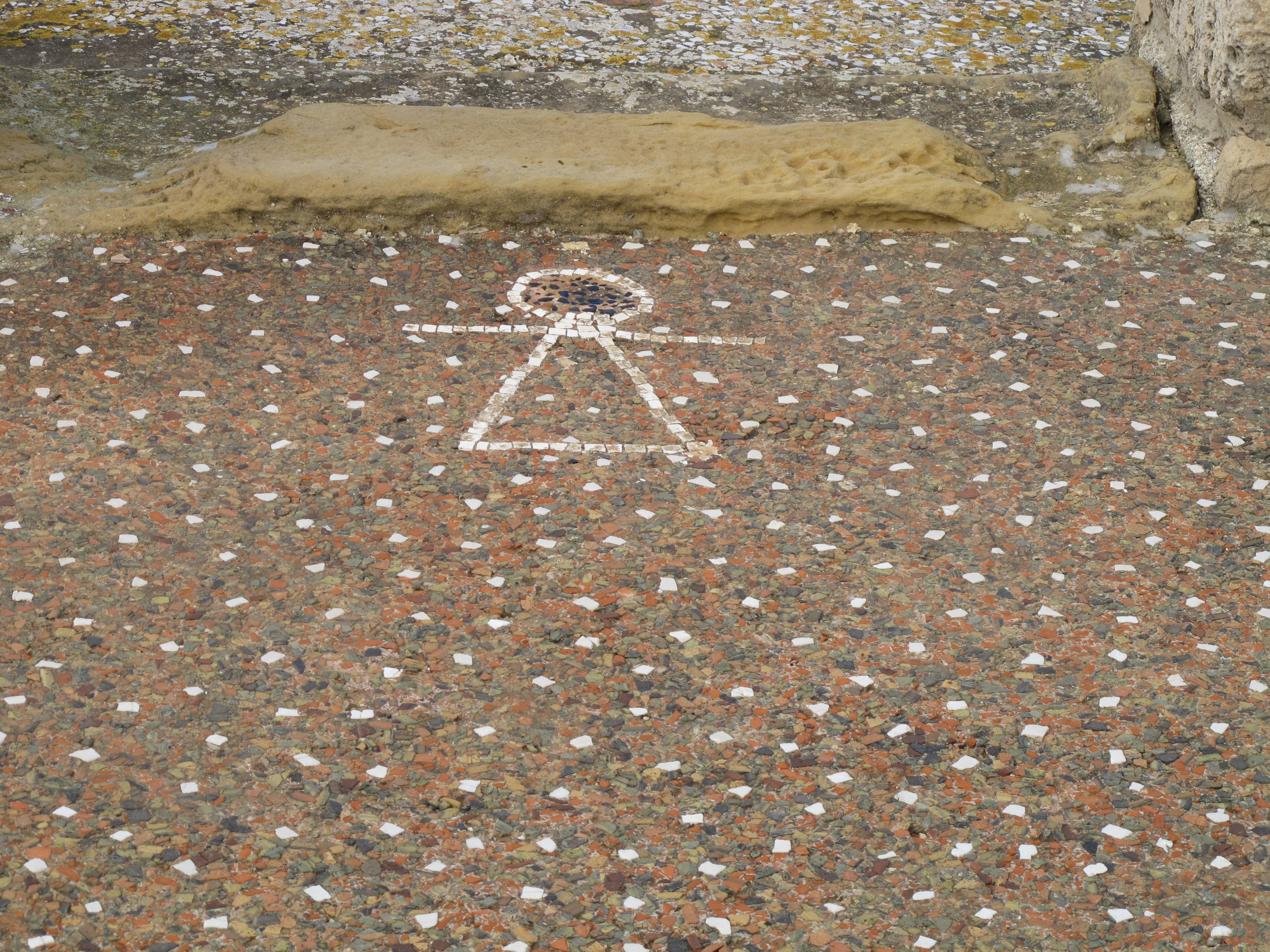 Mosaic of Tanit in Kerkouane, Tunisia